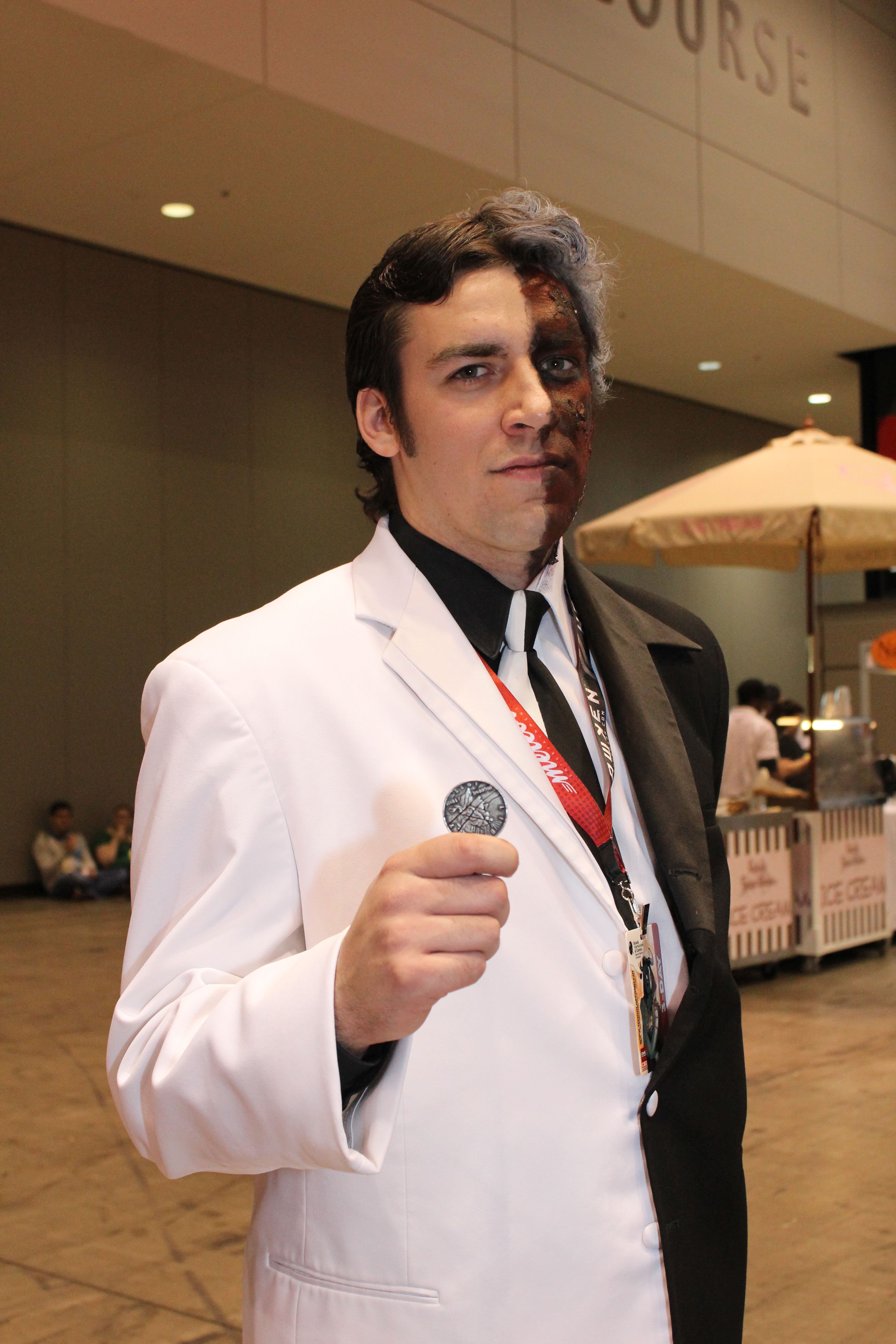 Cosplay at the 2013 Chicago Comic & Entertainment Expo (C2E2).